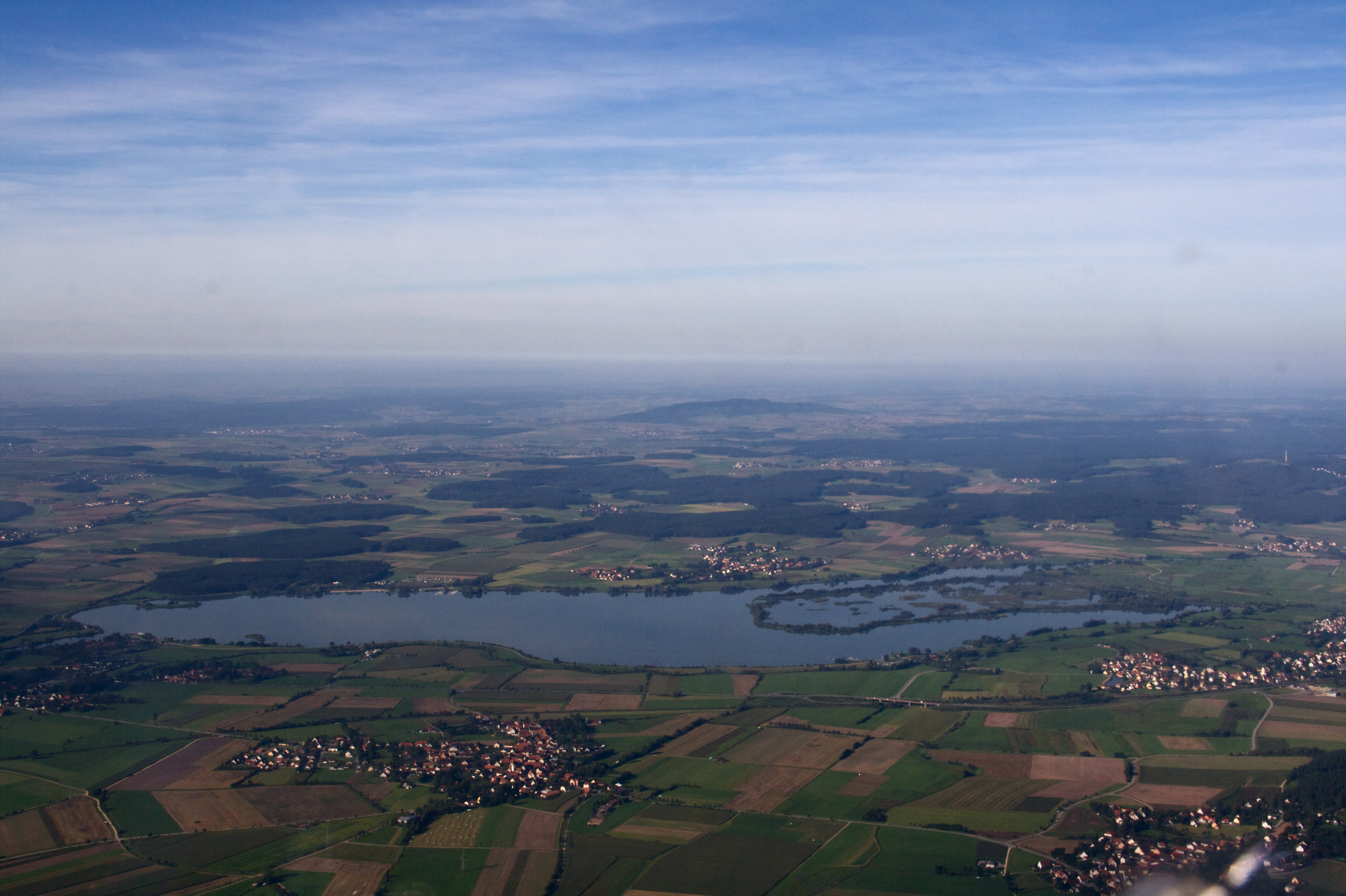 Airphoto of Altmühl Lake from north to south, Franconia, Bavaria, Germany